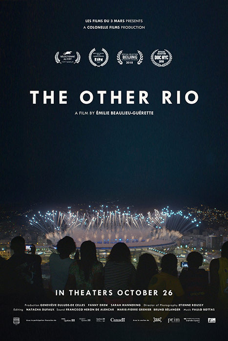 Poster of the movie The Other Rio (Q64768361)